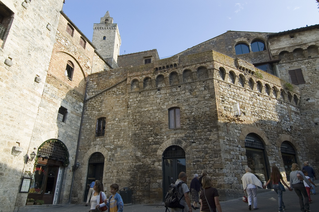 see above